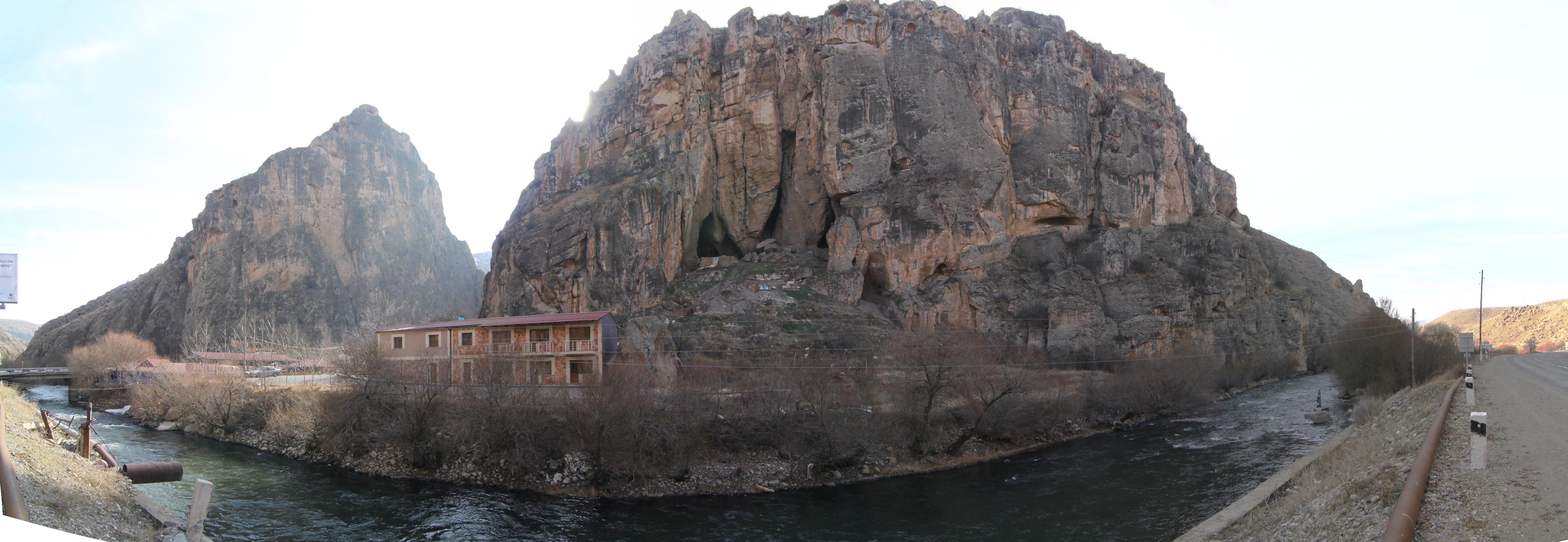 Panorama of the Areni-1 cave site along the Arpa River in southern Armenia near the town of Areni. The cave is the location of the world's oldest known winery and where the world's oldest known shoe has been found.